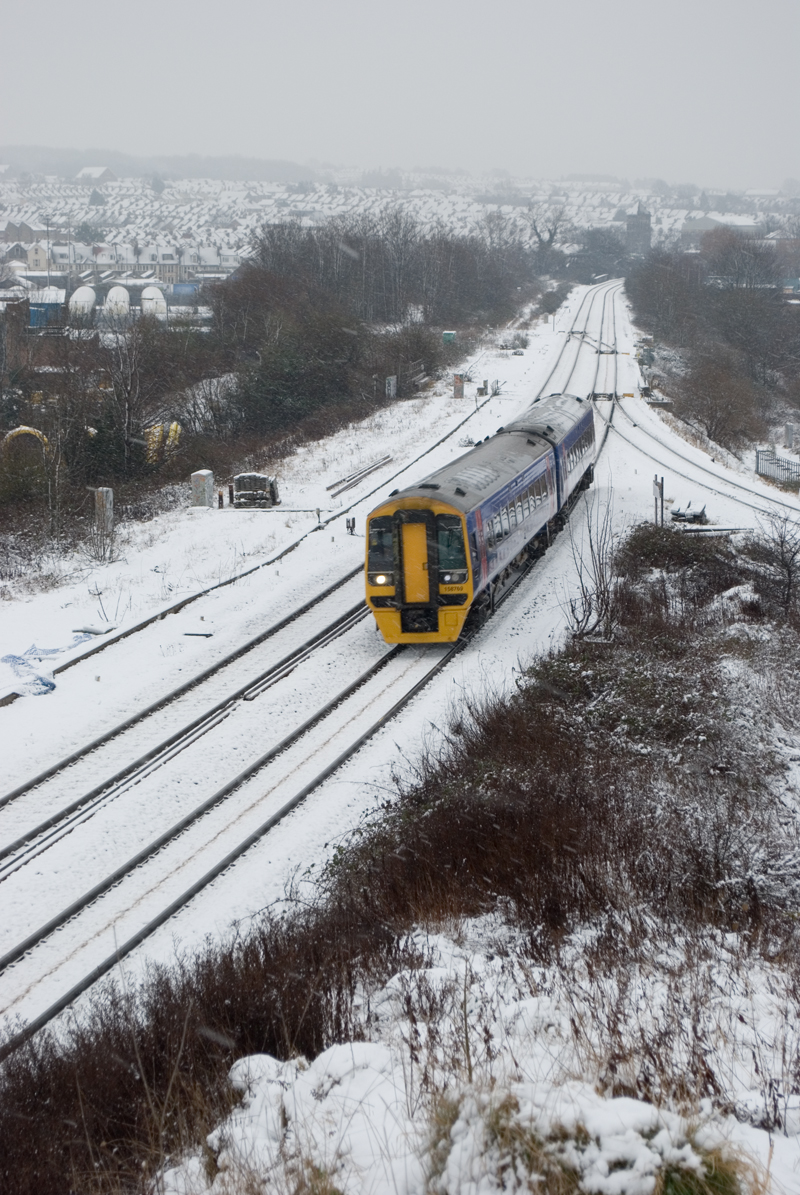 A train heading out of Bristol passes the Severn Beach line junction at St Werburghs.